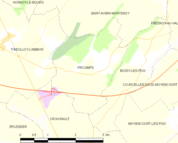 Map of French municipality Fricamps